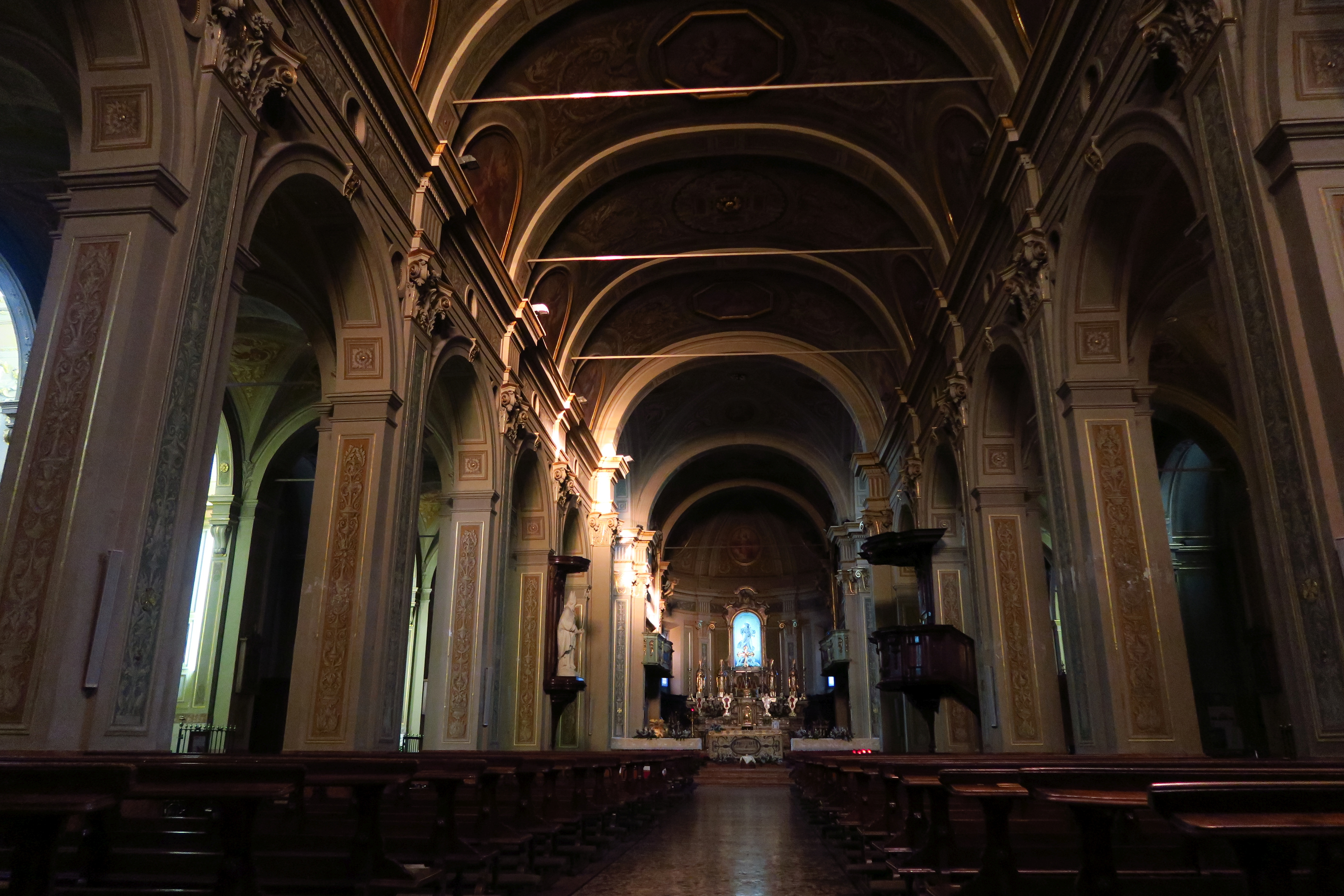 Chiesa San Biagio (Codogno), interno